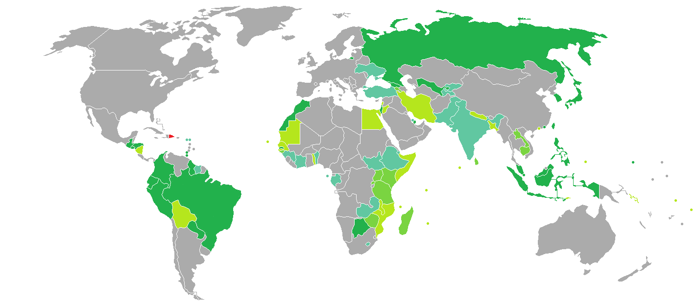 Visa requirements for Dominican Republic citizens Dominican Republic Visa free access Visa on arrival eVisa Visa available both on arrival or online Visa required